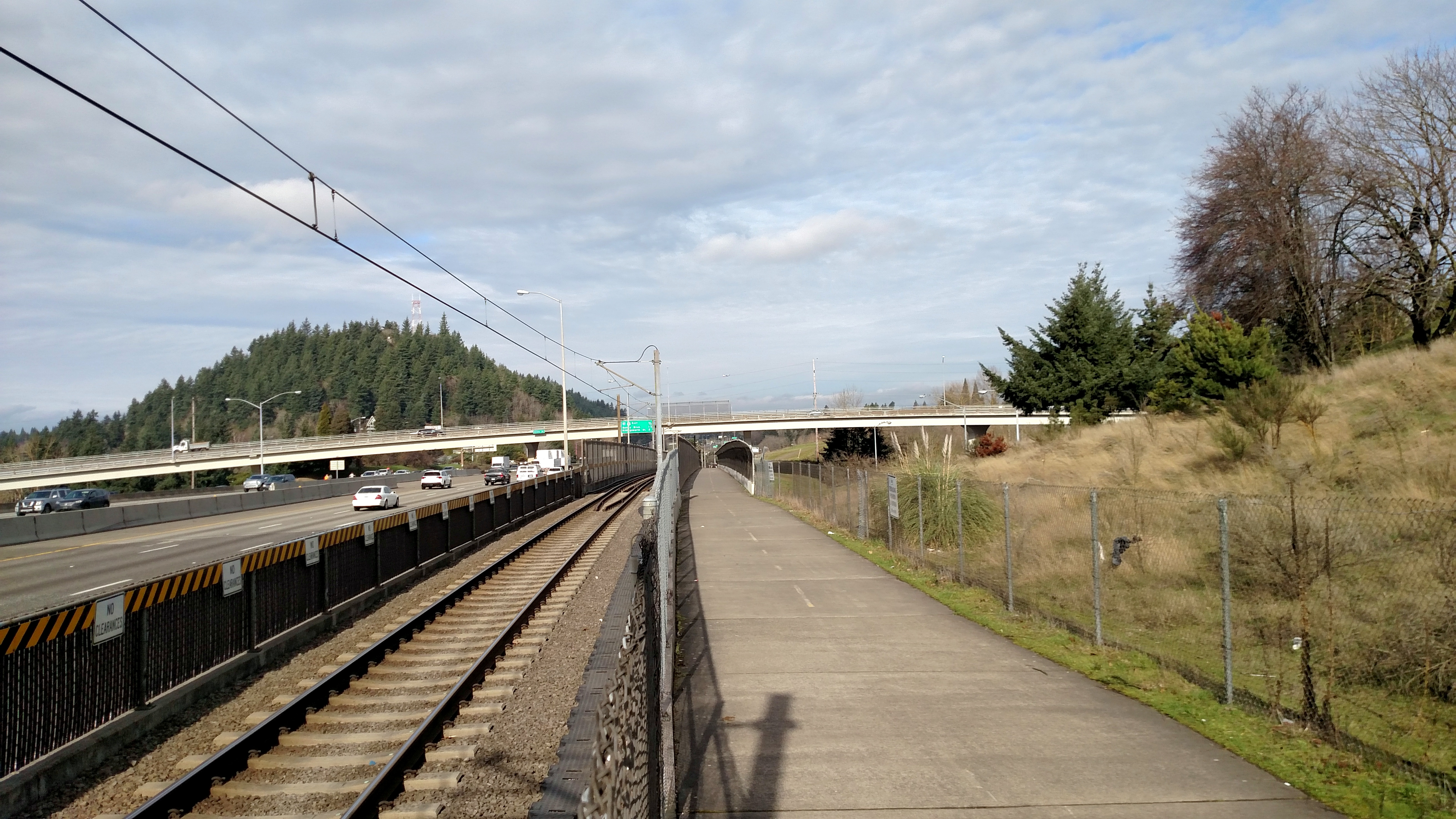 Red Line track and I-205 bike path north of Gateway Transit Center in February 2018